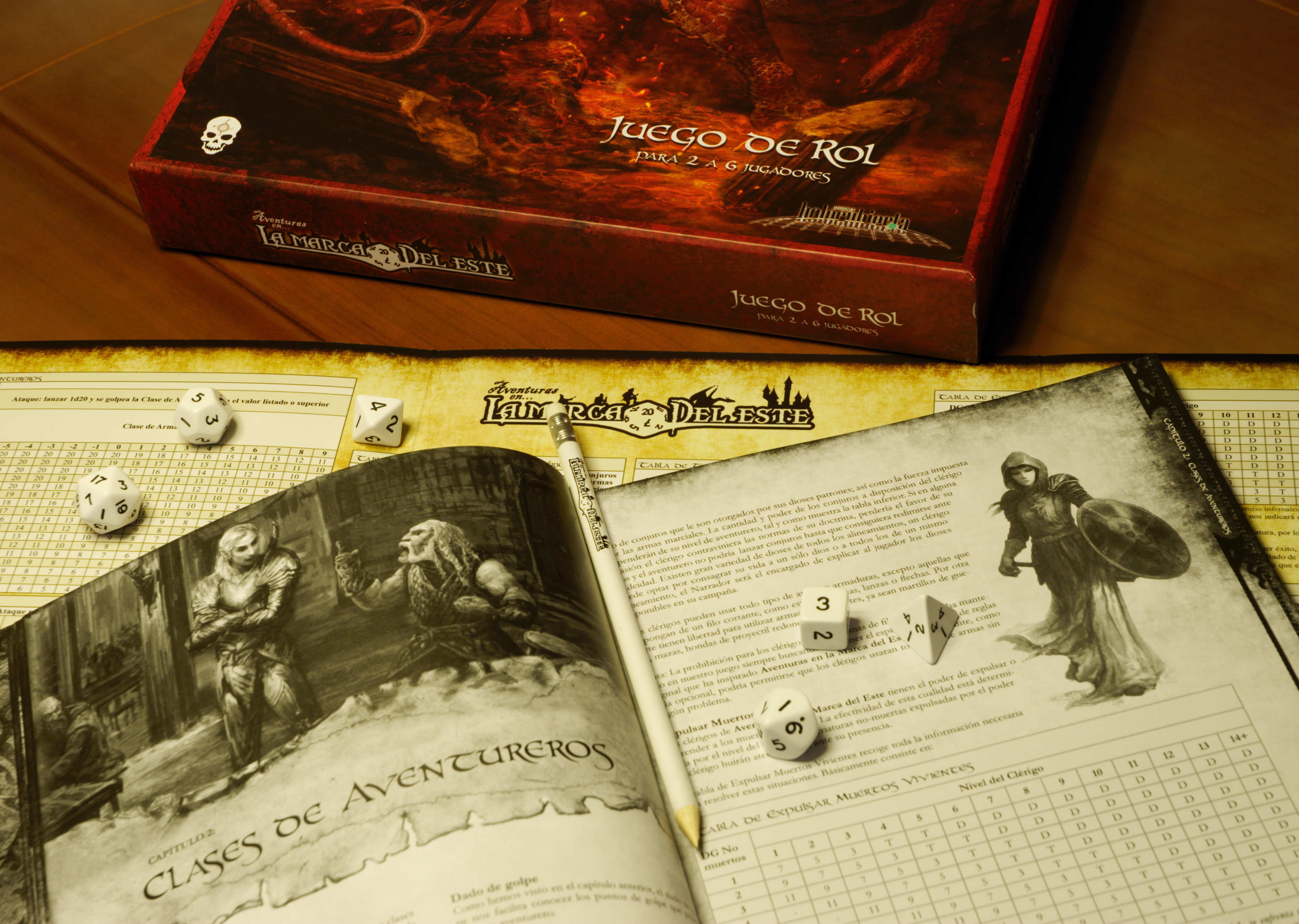 "Aventuras en La Marca del Este", role playing game. Complete set (box, rulebook, screen, pencil and dice set)